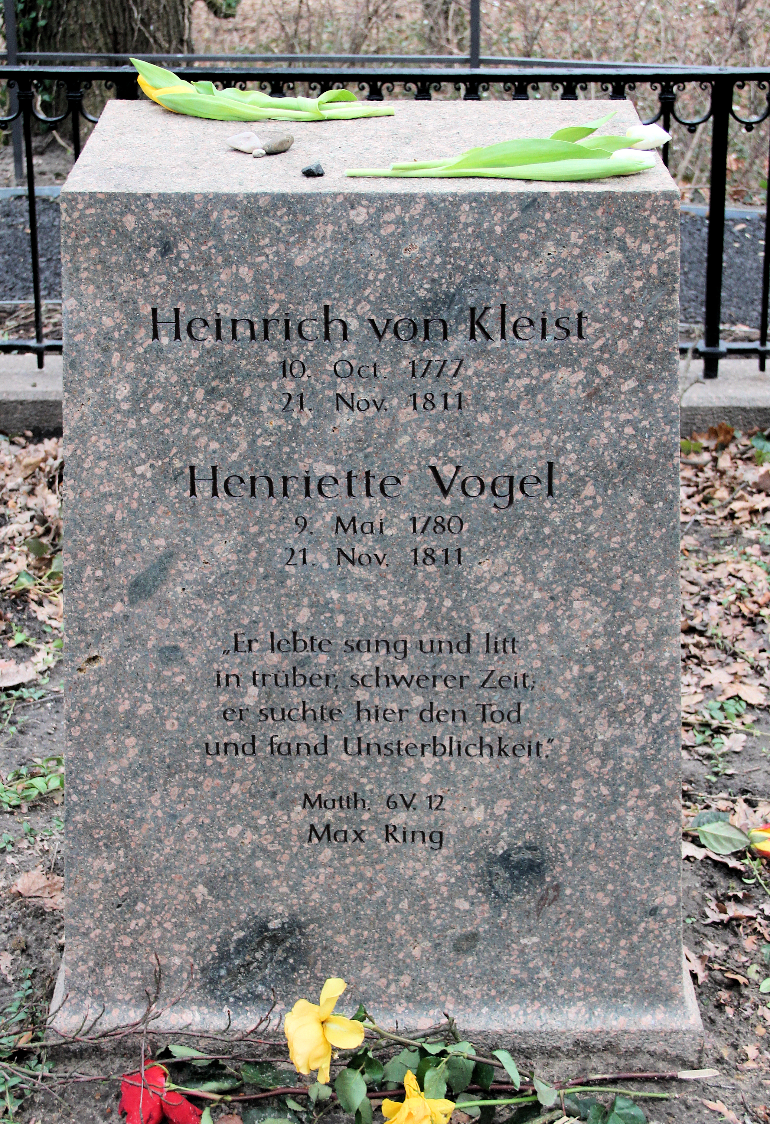 "Ehrengrab" (grave of honor), Heinrich von Kleist, Bismarckstraße 2-4, Berlin-Wannsee, Germany